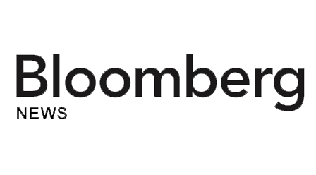 Bloomberg News logo